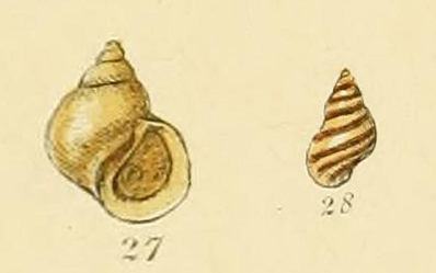 Lacuna vincta Montagu. From Illustrated Index of British Shells, Plate XII., Figs. 27 & 28.